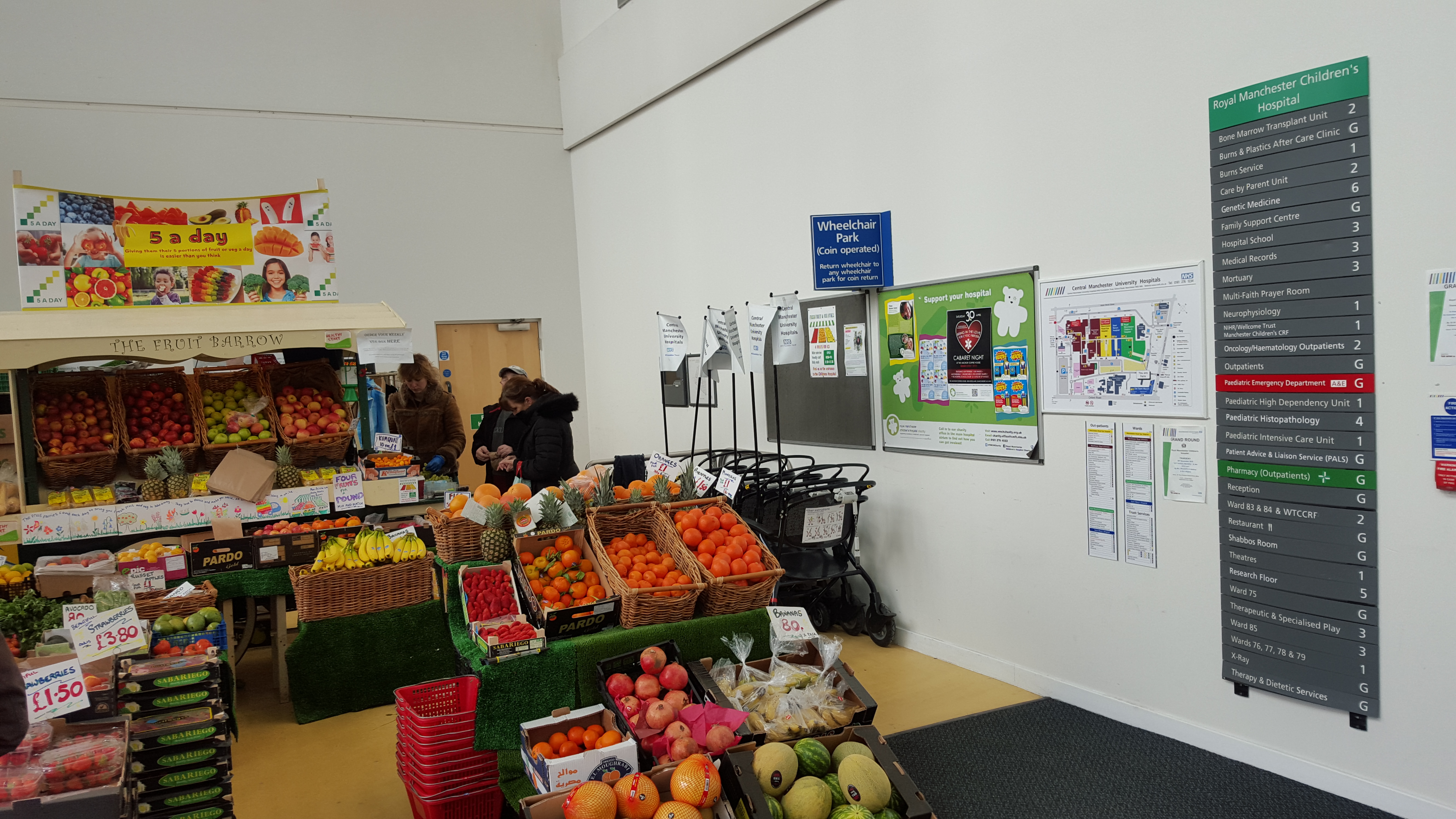 Fruit and vegetable stall at main entrance of Manchester University NHS Foundation Trust